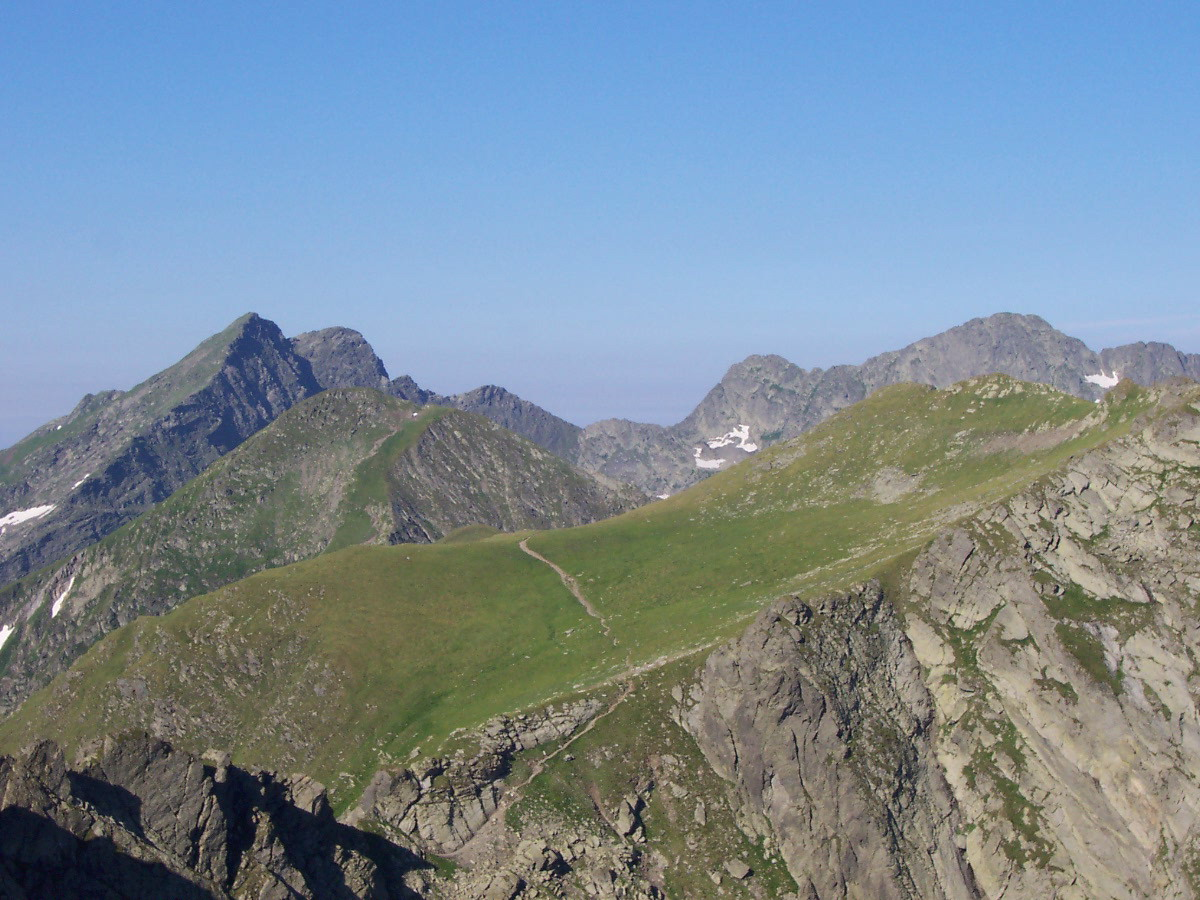 Negoi mount, Romania